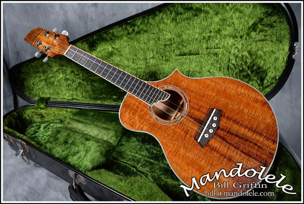 This is Bill Griffin's mandolele